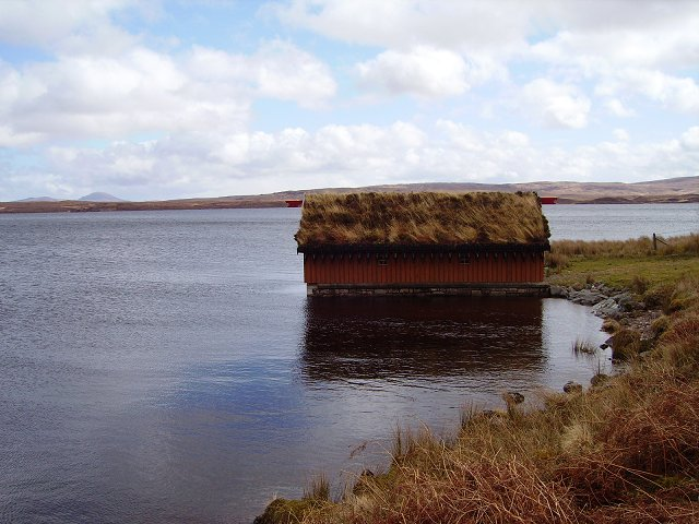 Boathouse, Loch Loyal Lodge Norwegian boathouse, complete with turf roof. It was built a few years ago. Ben Griam Beag in the distance.